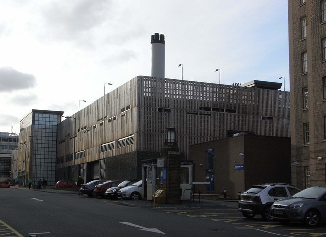 University Hospital Birmingham - boiler house and car park This is a new part of the complex. The vertical wood cladding is on a combined multi-storey car park and boiler house. The boiler house contains three Robey-Wellman packaged boilers, gas-burning I think. The little dark brick building is the Nuffield House plant room (I nocturnally explored this via the pipe tunnels over twenty years ago). In the distance on the left is the Women's Hospital.